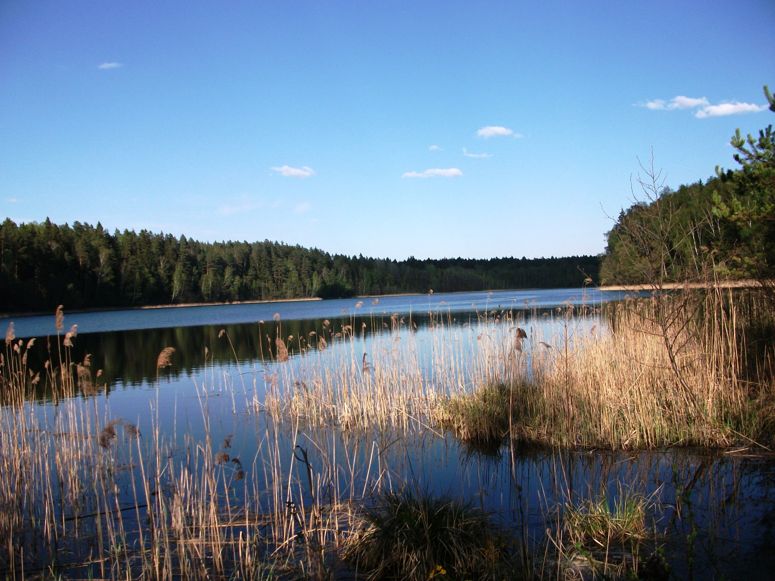 Vyaliki Boltsik Lake, Myadzyel district, Belarus